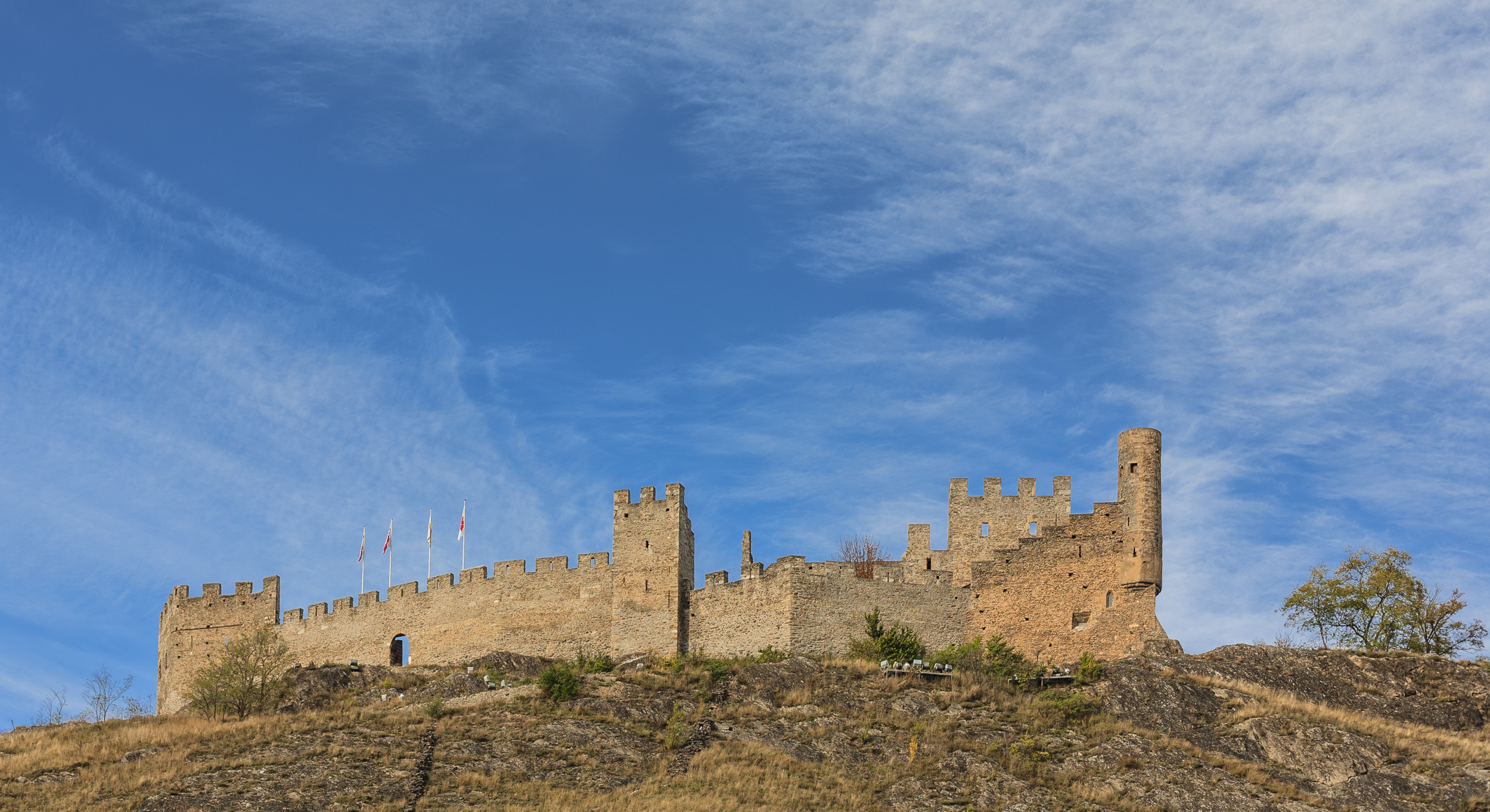 Tourbillon Castle, in the city of Sion, canton of Valais in Switzerland.